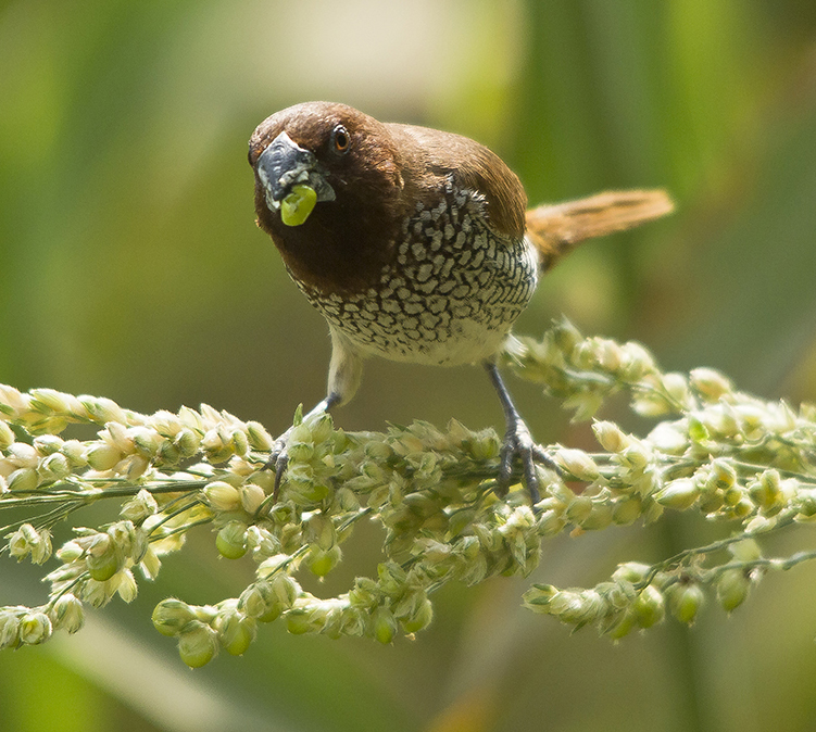 at Junagadh